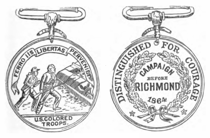 The Butler Medal, aka the Colored Troops Medal, privately commissioned by Maj. Gen. Benjamin Butler and presented to nearly 200 of his African American soldiers in the immediate aftermath of the American Civil War. See Butler Medal.